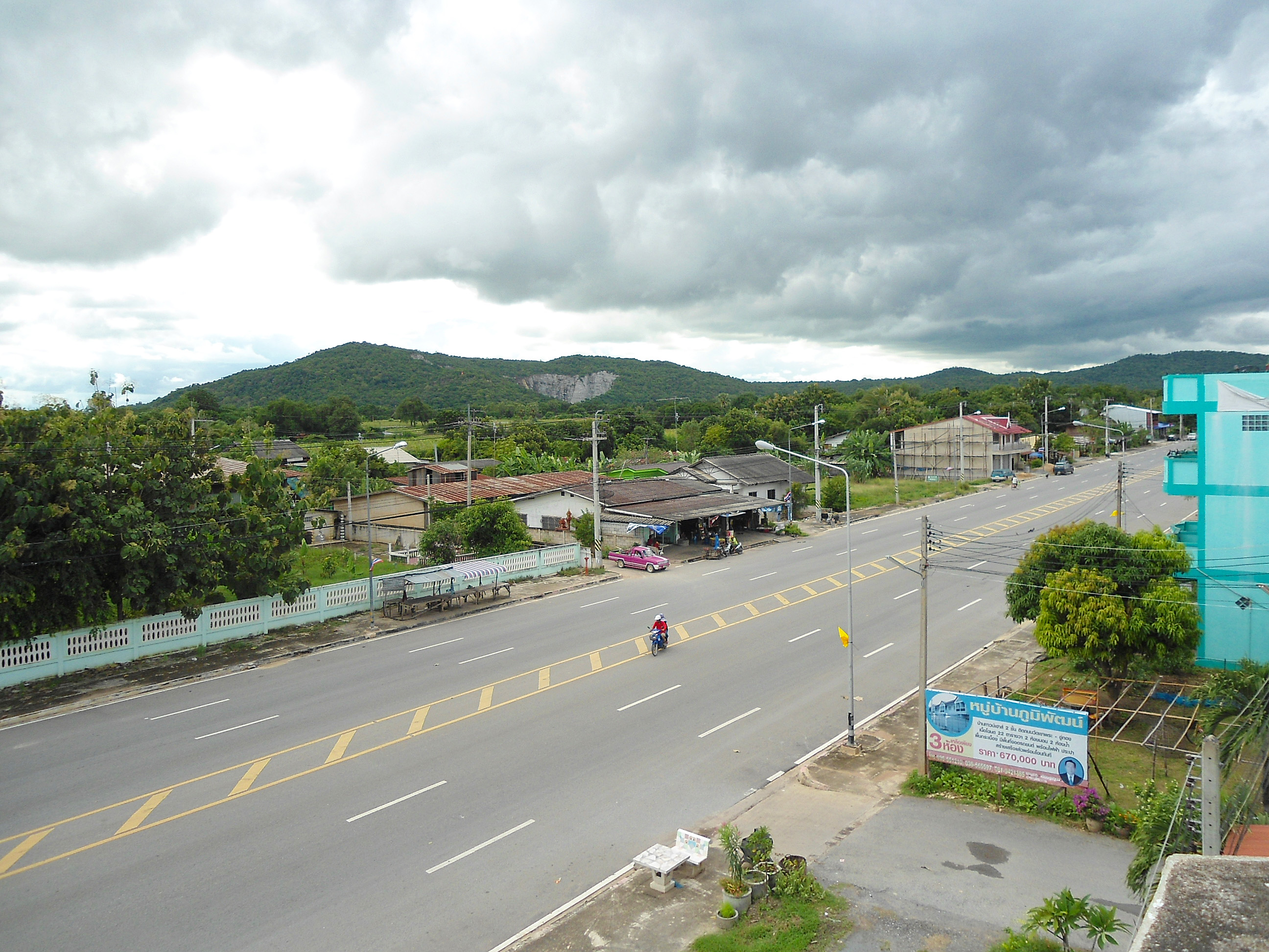 Heart of mountain at U-Thong district, Suphanburi, Thailand. It form mining limestone.